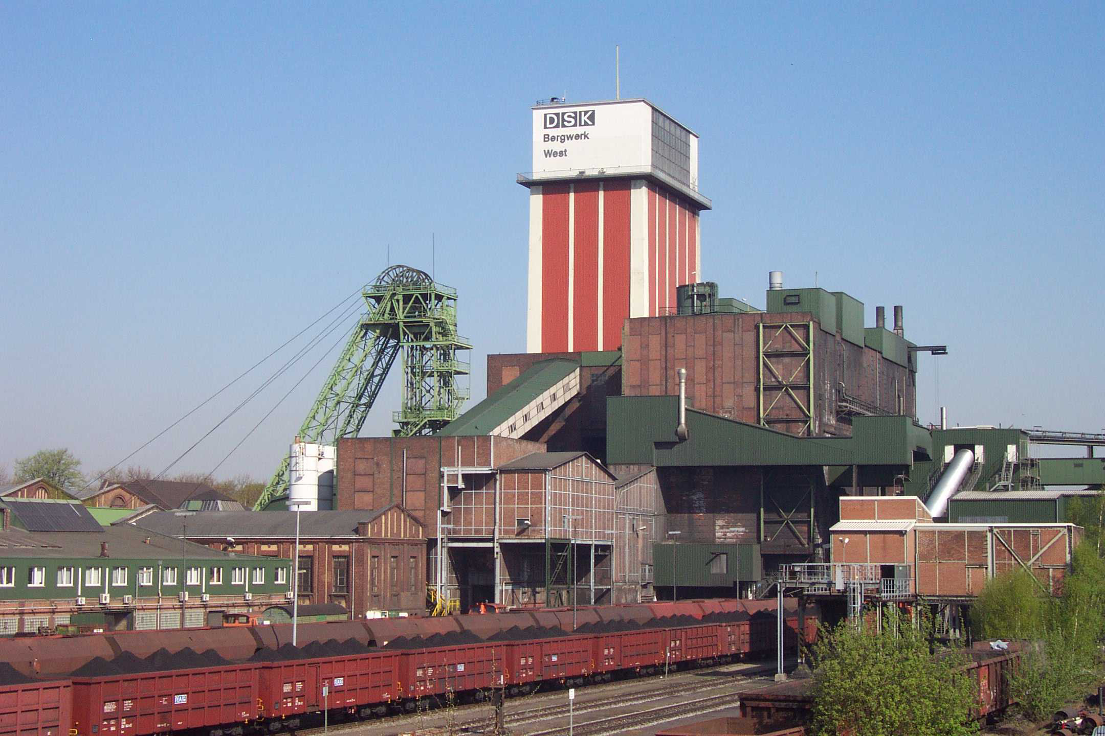 Pit FH 1/2